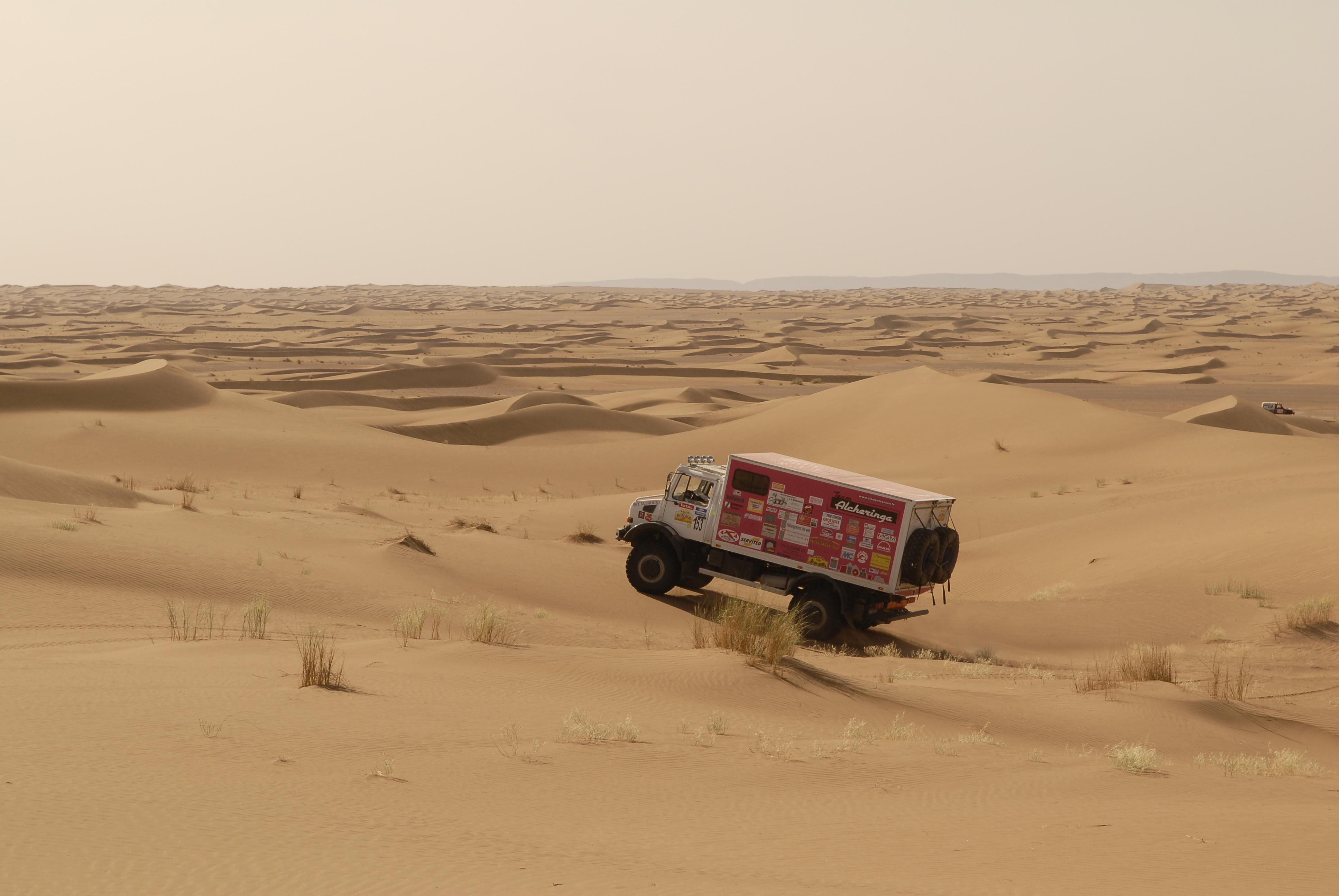 Team 153 (Pasqualini/Mazuchini Toffanello) with their Mercedes-Benz Unimog passing the dunes